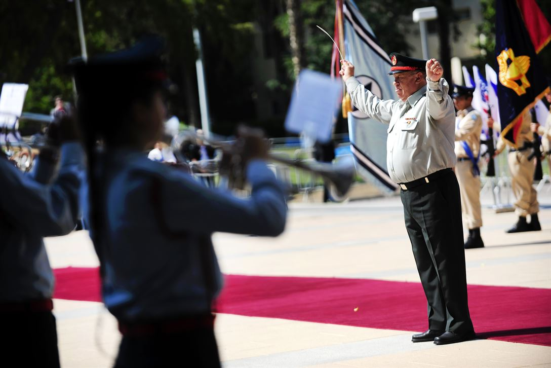 An Israeli Defense Forces band plays the U.S. national anthem as U.S. Defense Secretary Leon E. Panetta arrives in Tel Aviv, Israel, to meet with Israeli Defense Minister Ehud Barak, Oct. 3, 2011.